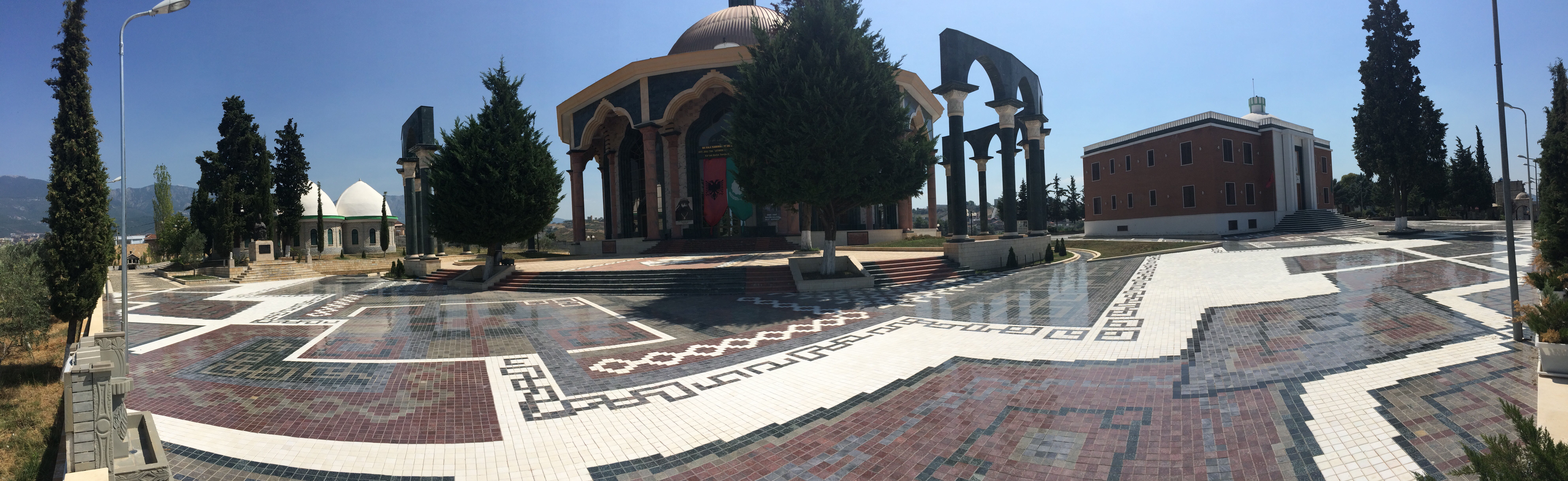 Panoramic view of the Bektashi World Center Complex in Tirana, Albania